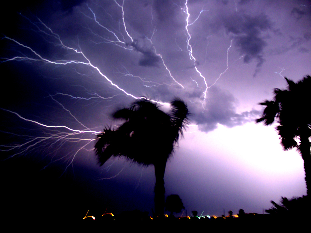 Storm viewed from my Padre Island home.